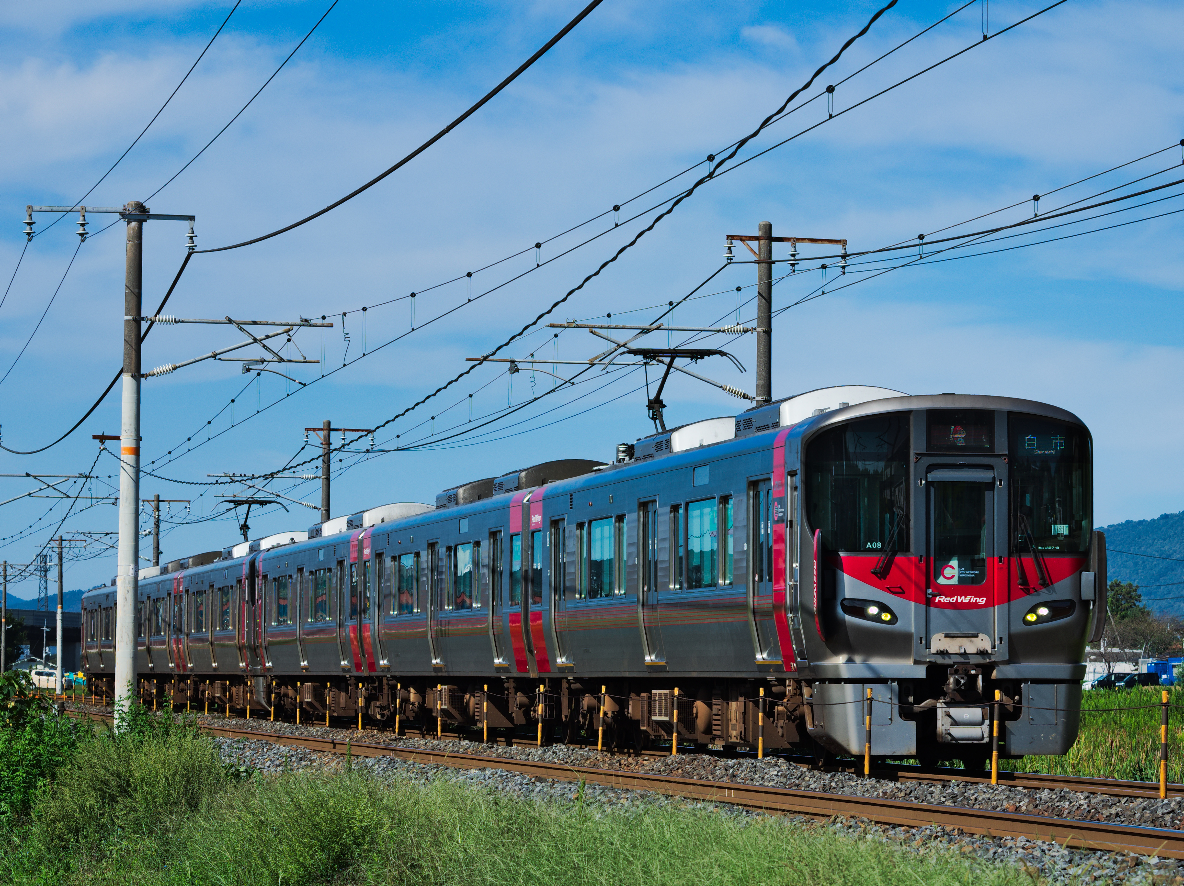 A pair of JR West 3-car 227 series EMUs led by set A08 between Saijo and Nishi-Takaya stations on the Sanyo Main Line